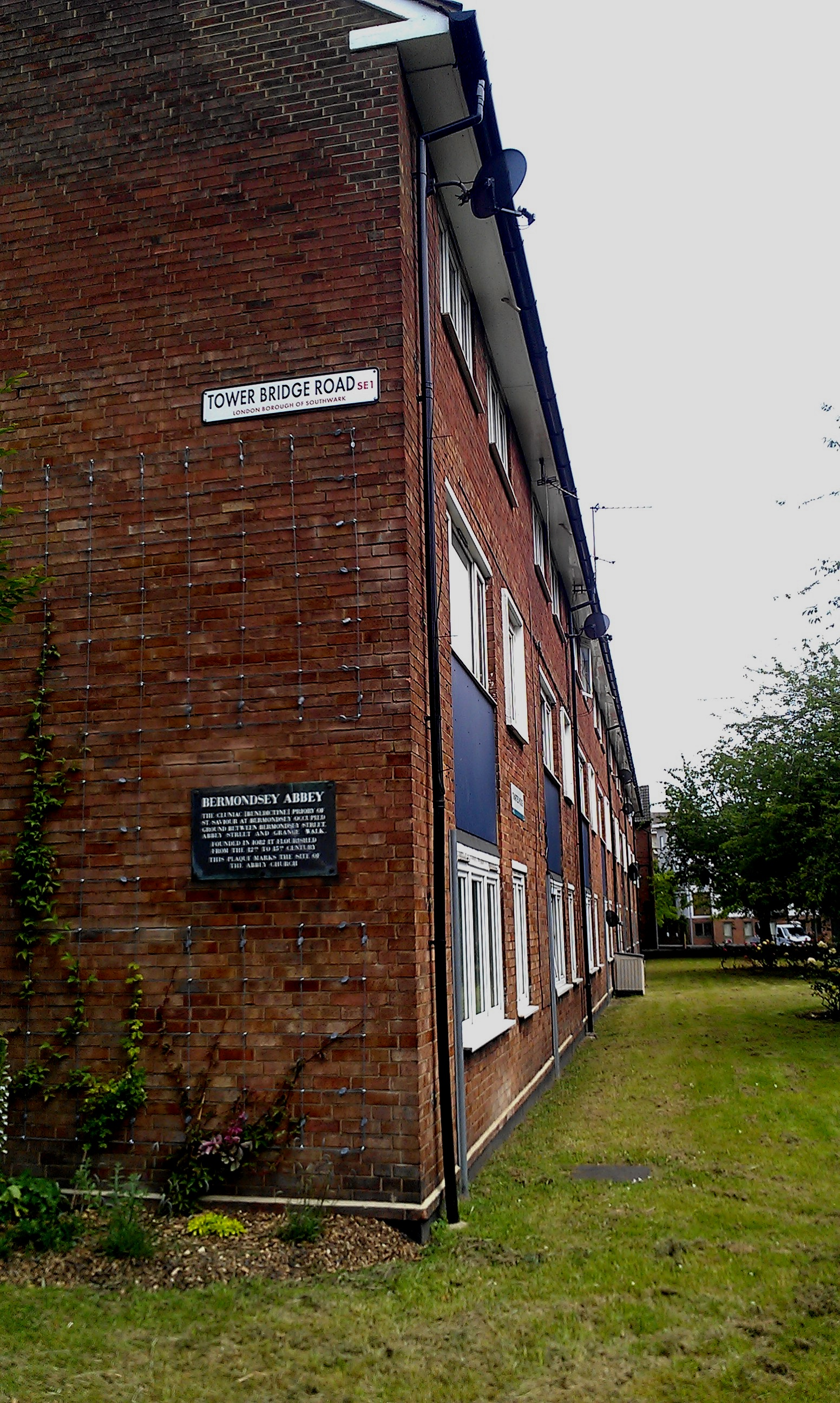 An apartment block with a plaque revealing that it was constructed atop the location of Bermondsey Abbeys church, London Borough of Southwark.